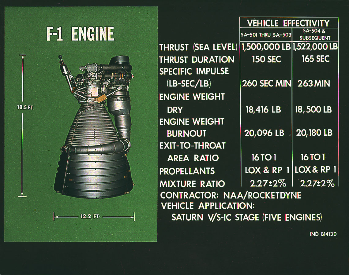 This chart provides the vital statistics for the F-1 rocket engine. Developed by Rocketdyne, under the direction of the Marshall Space Flight Center, the F-1 engine was utilized in a cluster of five engines to propel the Saturn V's first stage, the S-IC. Liquid oxygen and kerosene were used as its propellant. Initially rated at 1,500,000 pounds of thrust, the engine was later uprated to 1,522,000 pounds of thrust after the third Saturn V launch (Apollo 8, the first marned Saturn V mission) in December 1968. The cluster of five F-1 engines burned over 15 tons of propellant per second, during its two and one-half minutes of operation, to take the vehicle to a height of about 36 miles and to a speed of about 6,000 miles per hour.